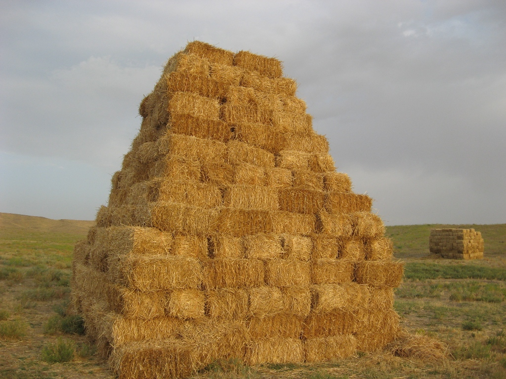 برداشت گندم